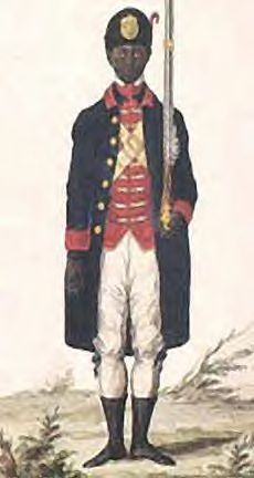 1785 African-Puerto Rican soldier in the militias by Puerto Rican Jose Campeche.